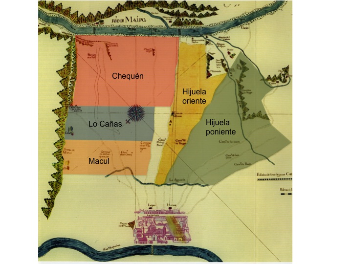 Mateo de Lepe fields located south of Santiago de Chile